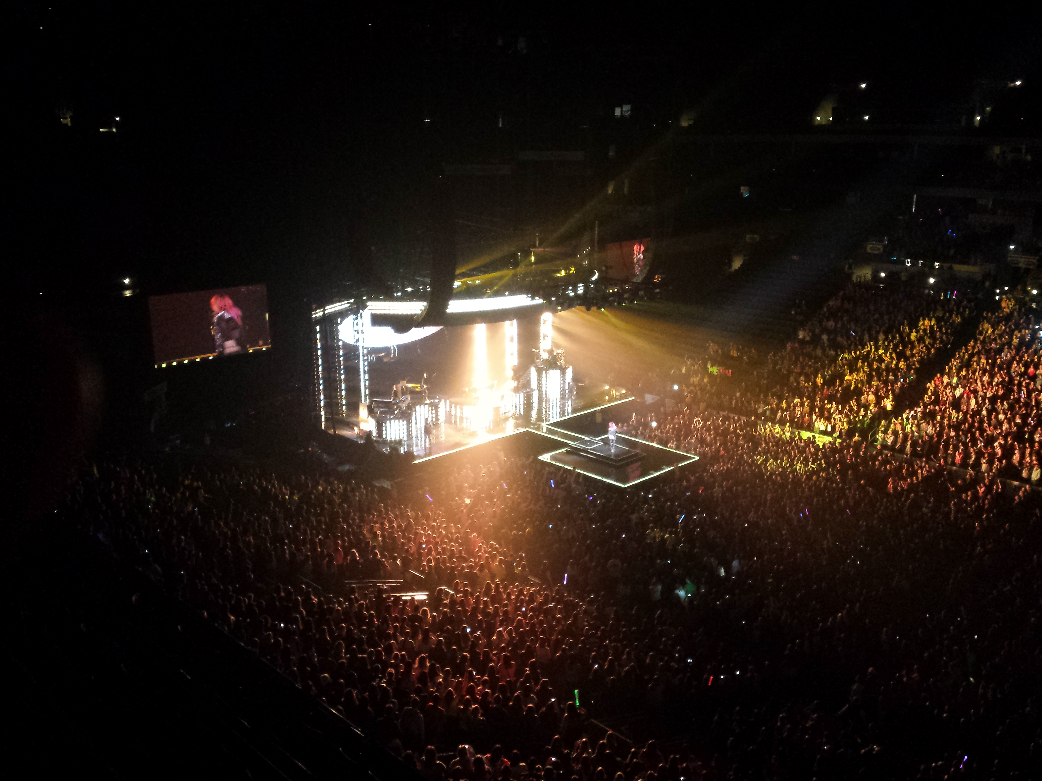 Demi Lovato performing at the Nationwide Arena in Columbus, Ohio during her Neon Lights Tour.